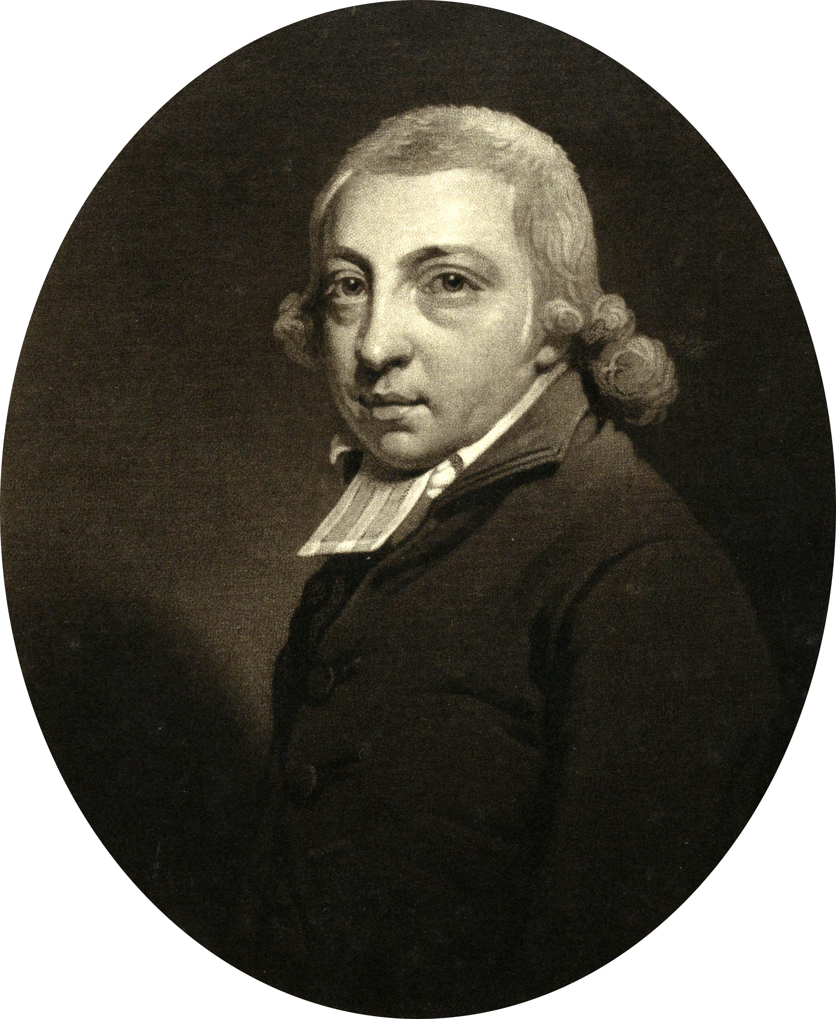 Reinier Pieter van de Kasteele (1767-1845), pastor, first director of the Royal Cabinet of Rarities in The Hague, The Netherlands.